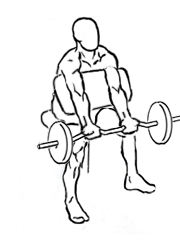 an exercise of biceps